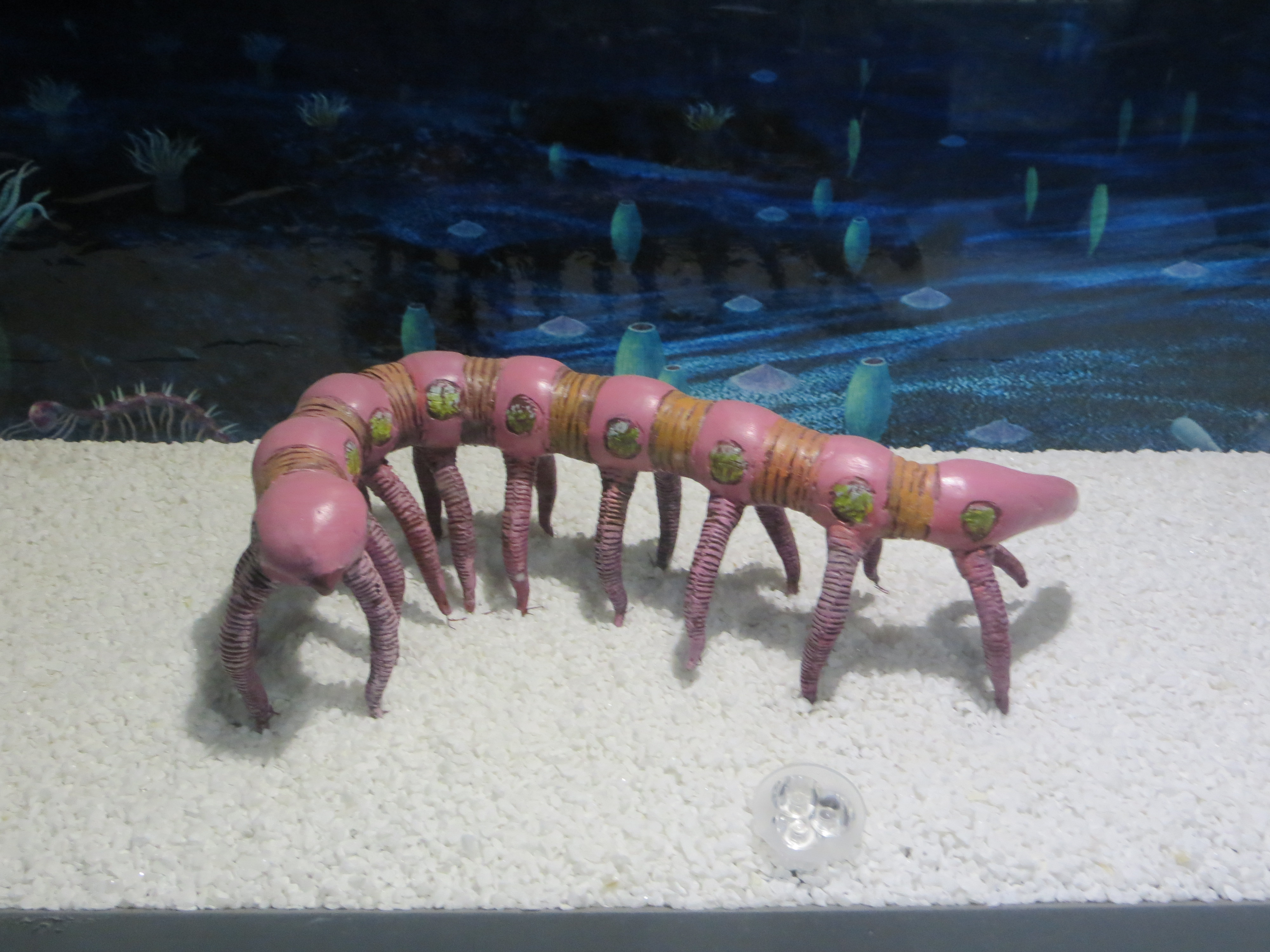 Model of Microdictyon on display at the Chengjiang fossil site museum